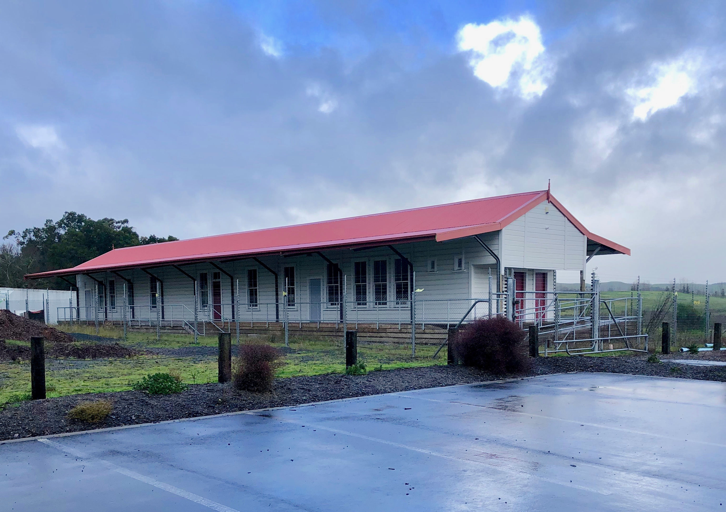 Huntly railway station, now beside Lake Puketirini, which was planned in 2009 to become Waikato Coalfields Museum